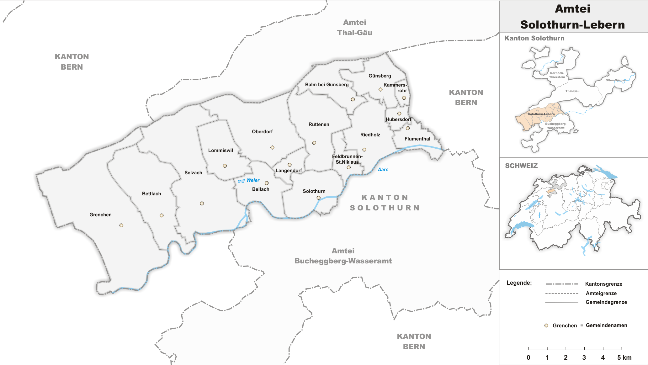 Municipality in the Amtei of Solothurn-Lebern